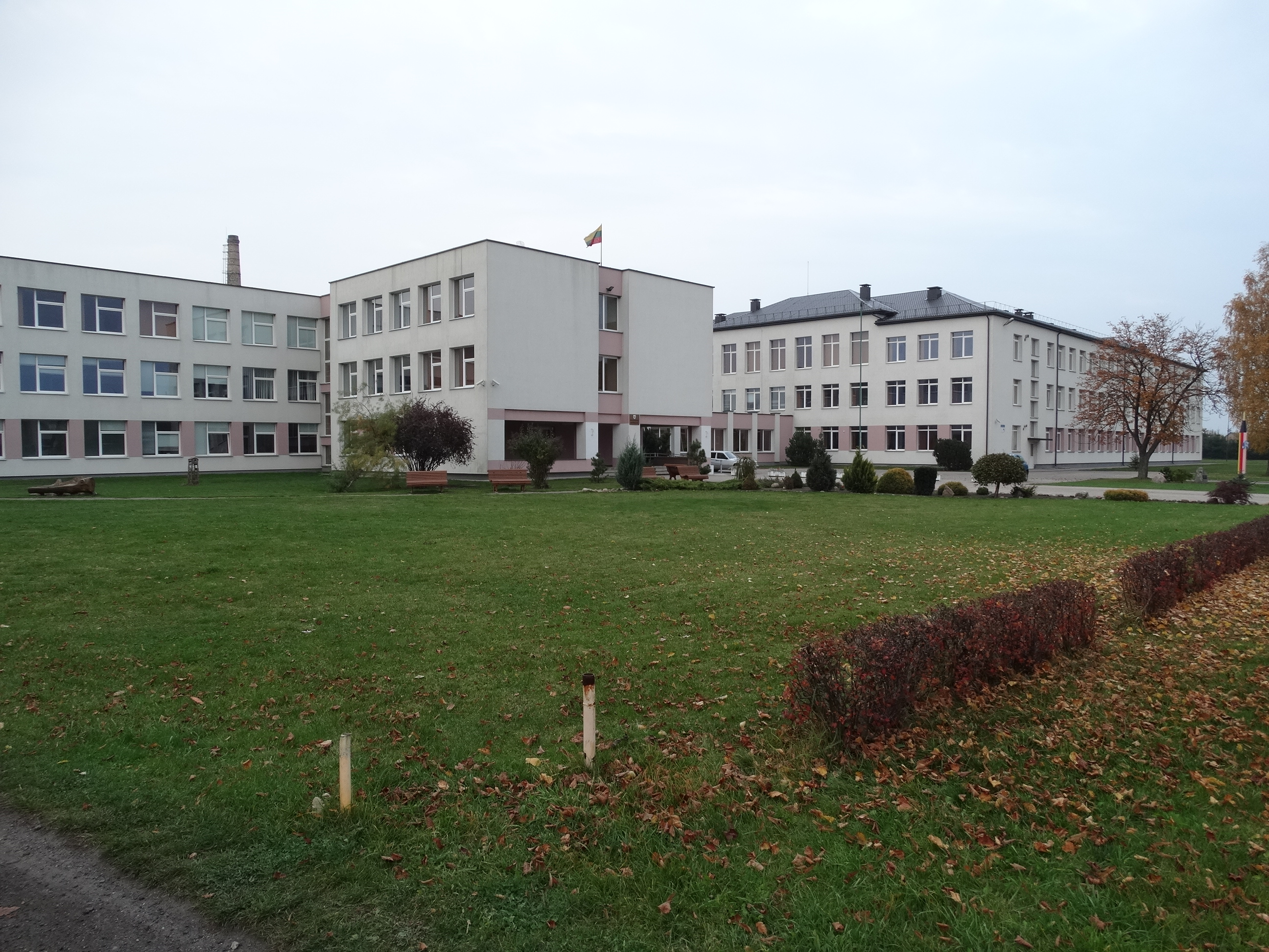 Gymnasium, Kalvarija, Lithuania